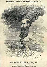 Copy of a cartoon from Punch